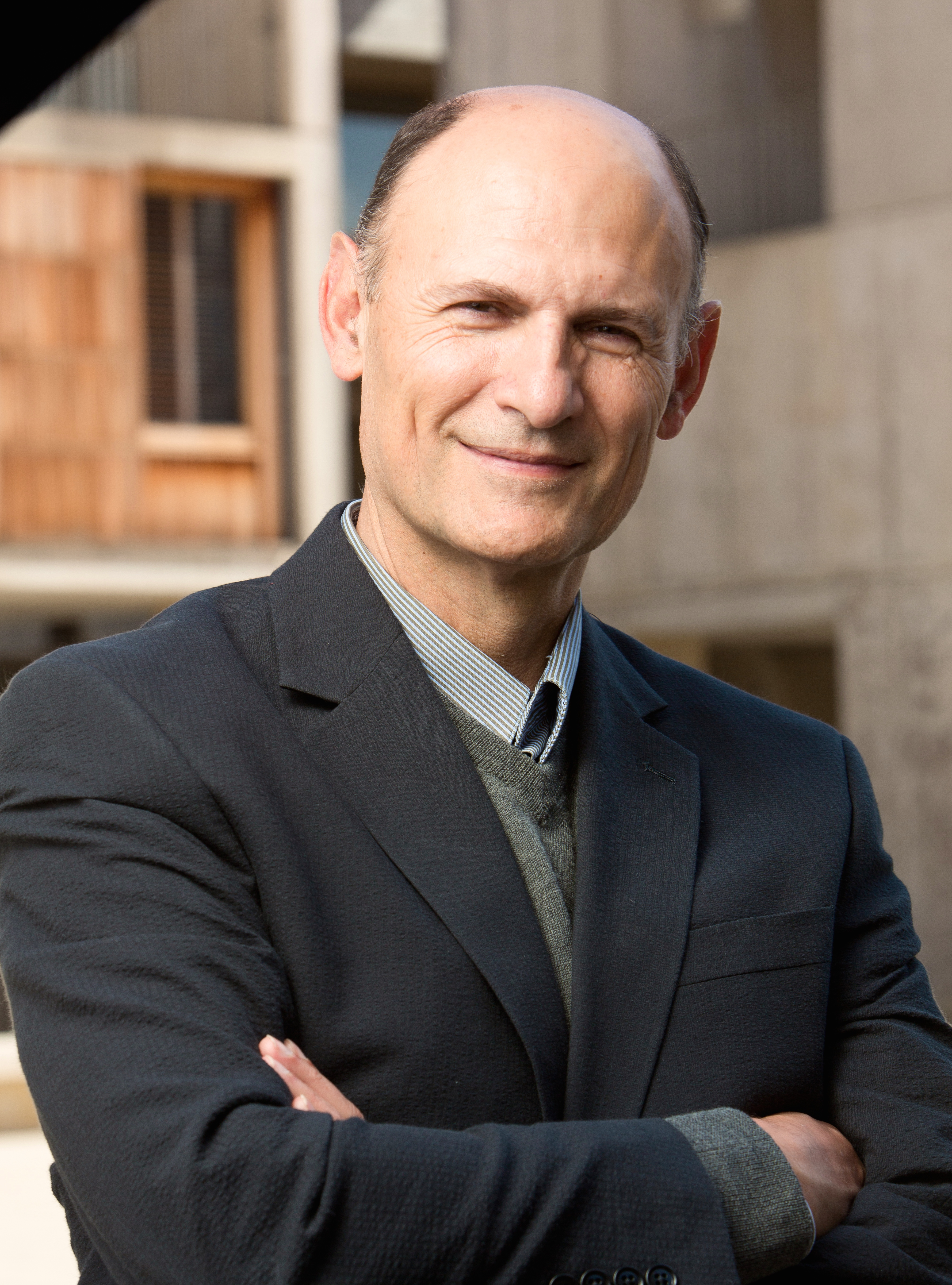 Juan Carlos Izpisua Belmonte at the Salk Institute